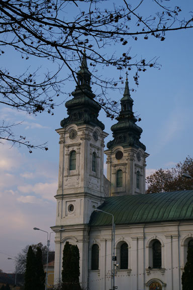 One of several churches in Lugoj.